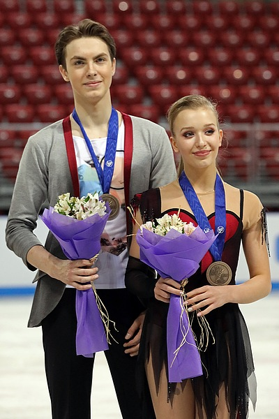 Arina Ushakova and Maxim Nekrasov at the 2018 World Junior Championships